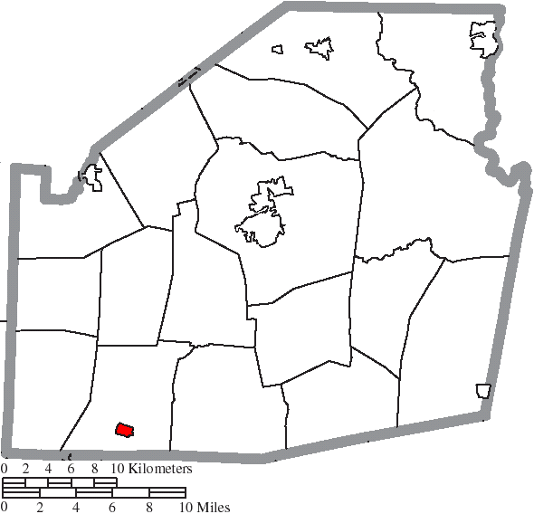 Map of the municipal and township boundaries of Highland County, Ohio, United States, as of the 2000 census, with the location of the village of Mowrystown highlighted. Township borders are shown only in unincorporated areas in order to differentiate incorporated and unincorporated areas more clearly.